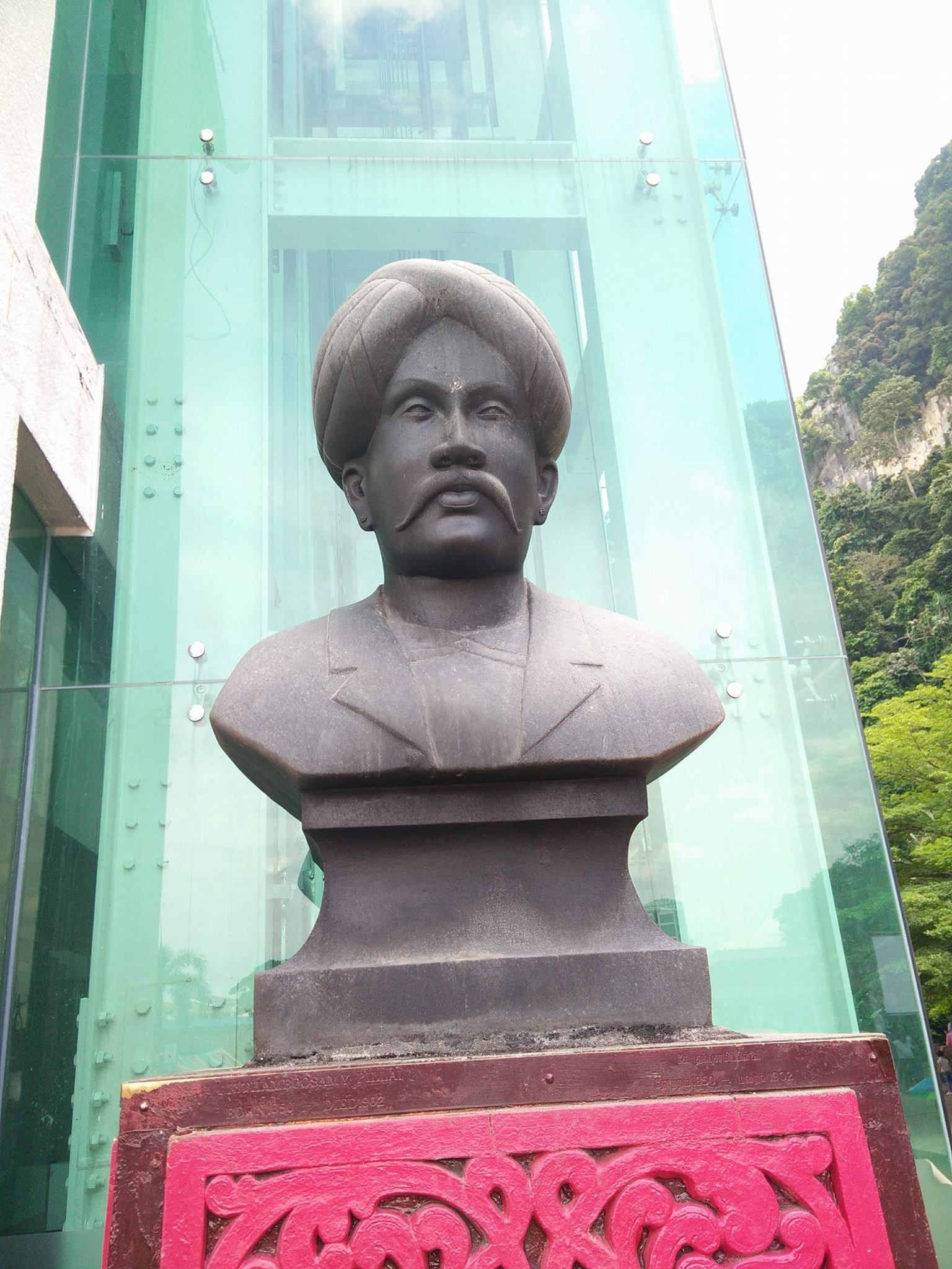 A picture of Mr. Thamboosamy's bust taken in Batu Caves.